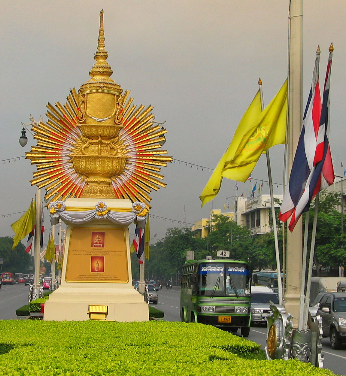 "The Royal Crown of Victory", one of several "exhibits" showing the Royal Thai Regalia on Ratchadamnoen Avenue in Bangkok in honour of the 60th anniversary of H.M. King Bhumibol Adulyadej's ascension to the throne (9 June 2006).